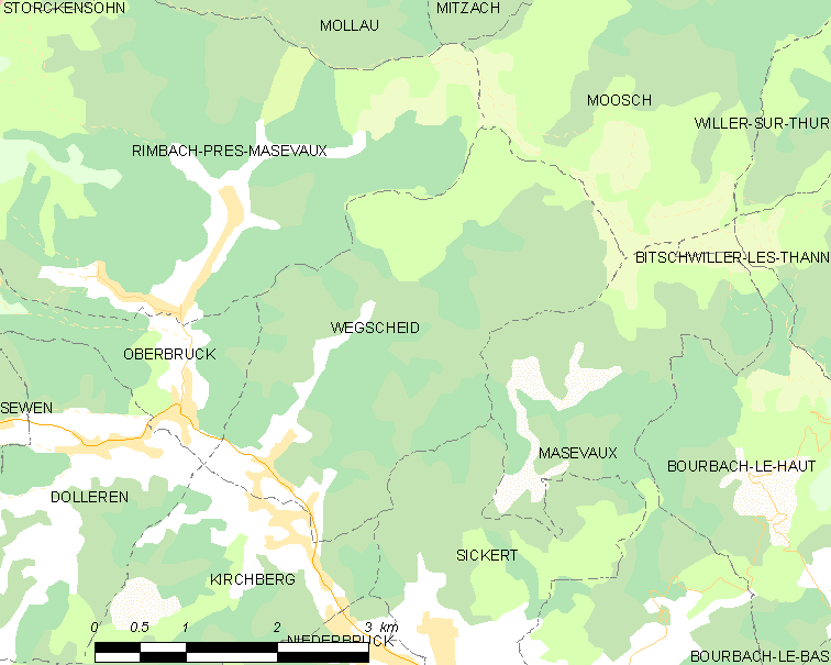 Map of French municipality